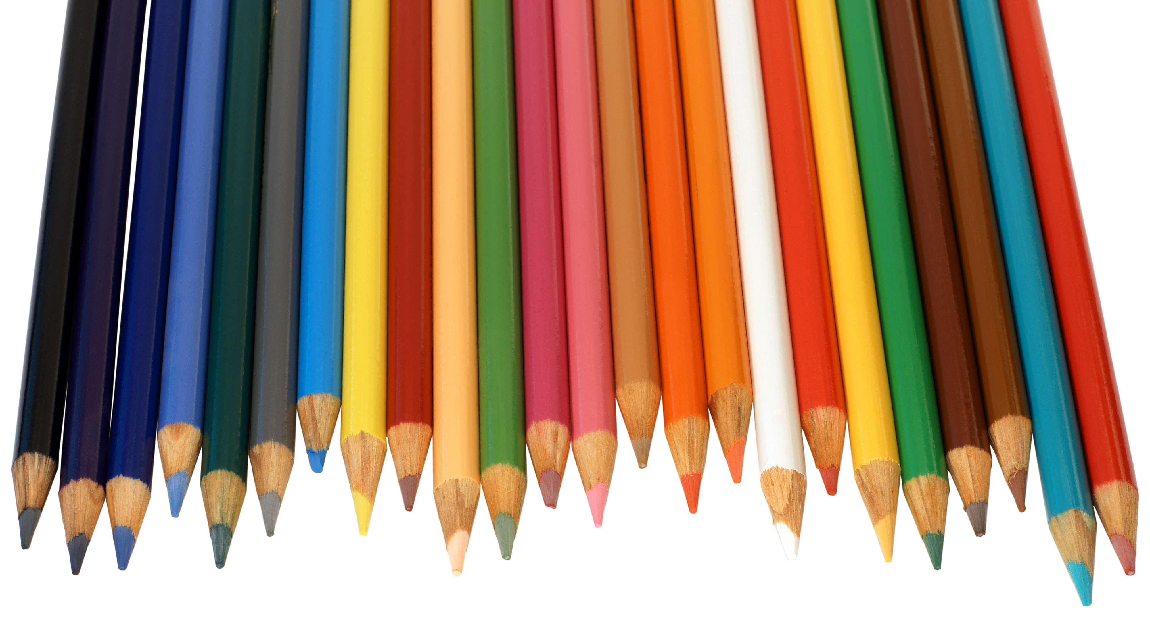 An array of colored pencils on a white background; these pencils are made by Crayola.